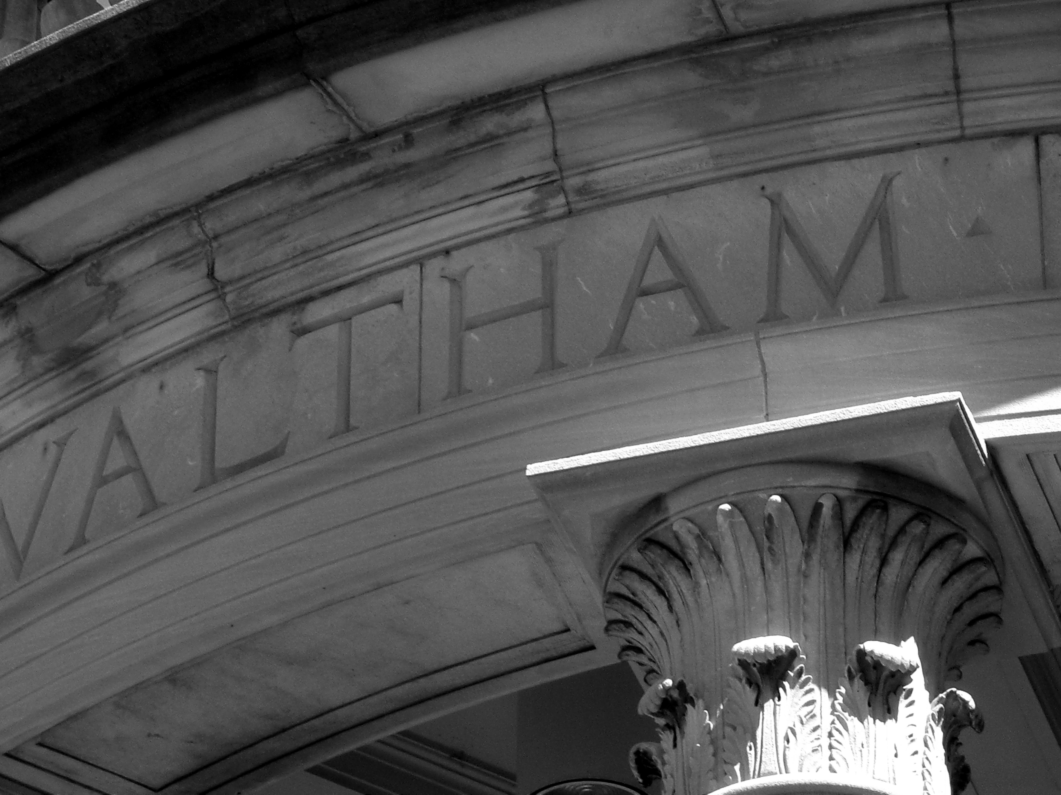 This Waltham Library